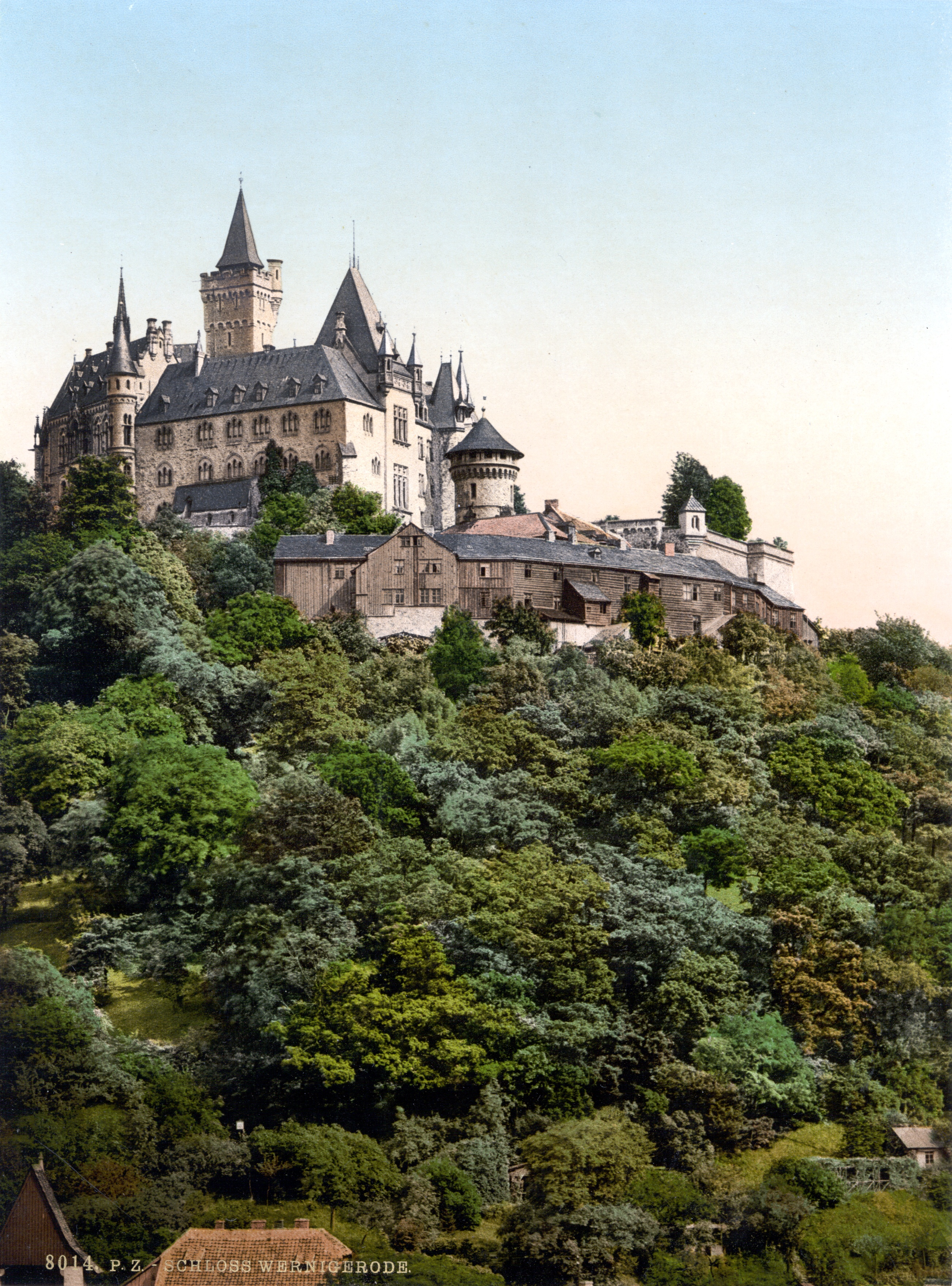 The castle of Wernigerode